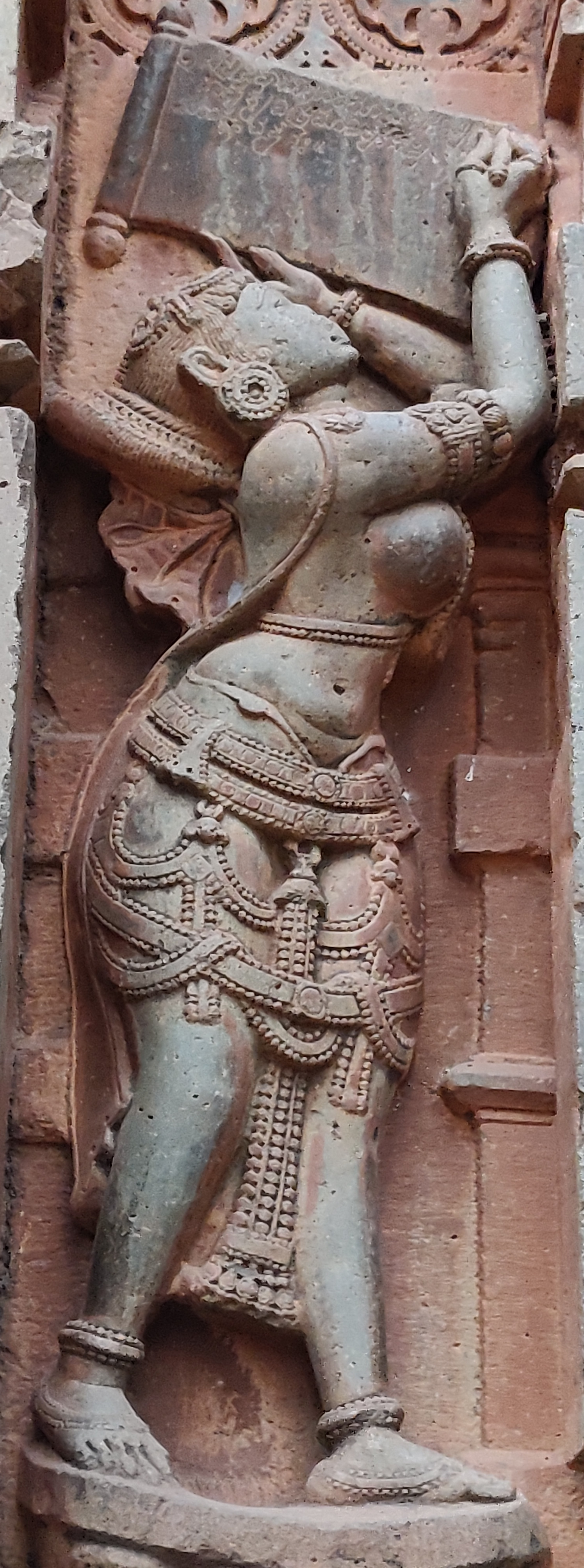 Pictures clicked in Iswara temple in Jalasangvi, Humnabad town, Bidar district, Karnataka. The temple is also known as Jalasangvi temple, Kamalishwara temple, Kamaleshwara temple, Kalleswara temple. The temple is of Chalukyan style. Built around 1100 AD with stone. Salabhanjika at the Iswara temple Jalasangvi